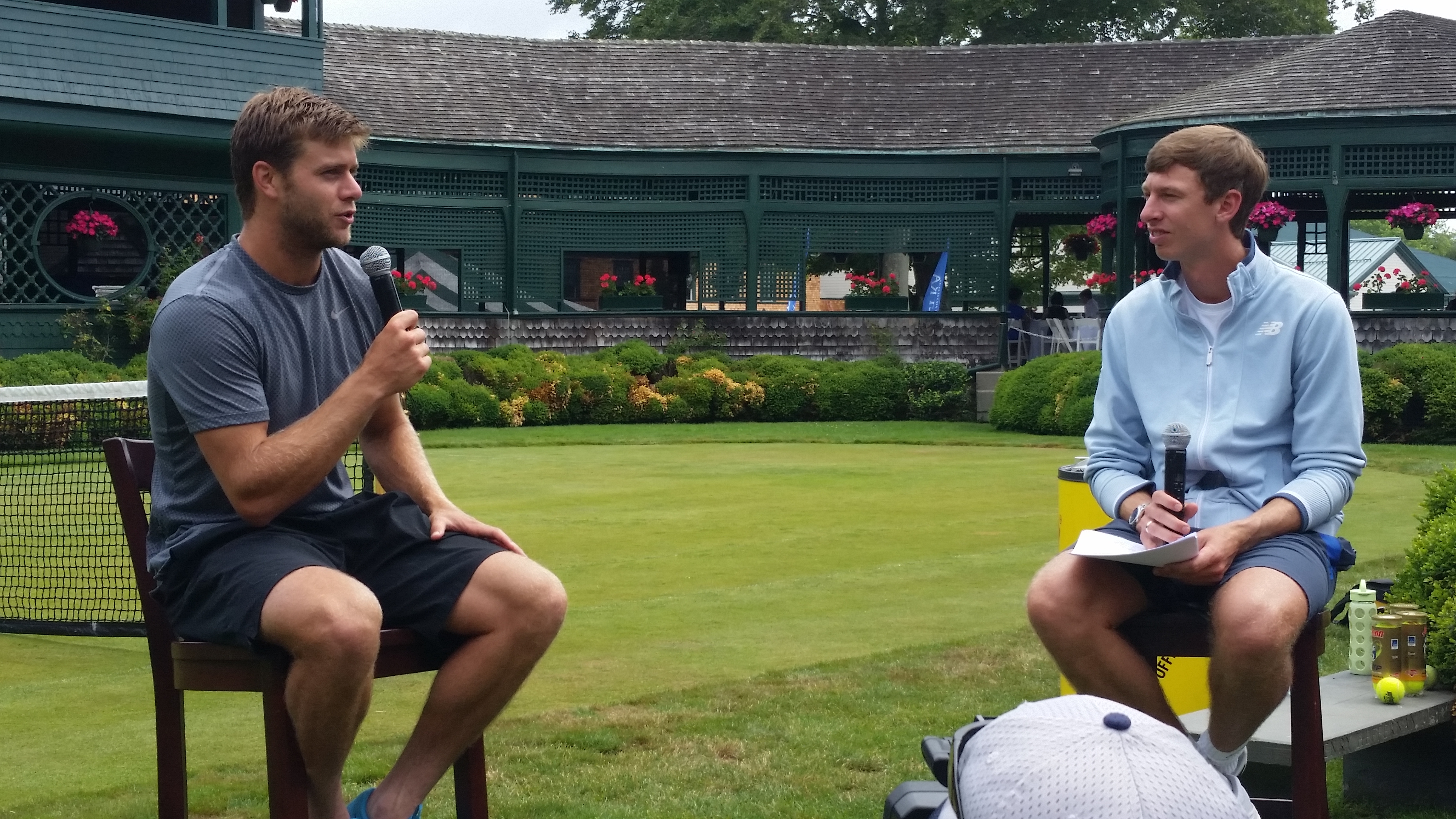 Ryan Harrison interviewed by Eric Butorac at the Newport Hall of Fame Tennis Championships